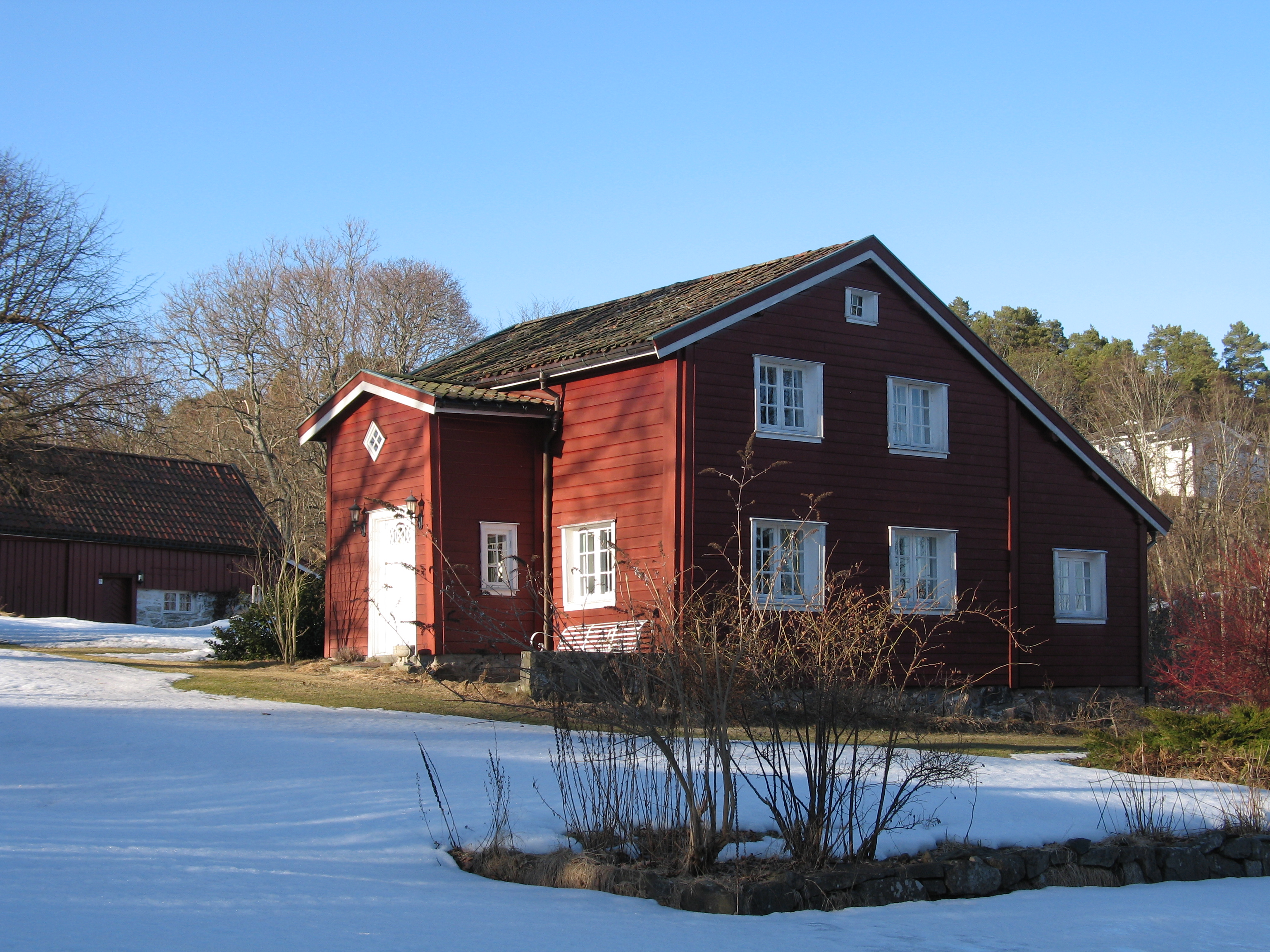 protected building in tjøme